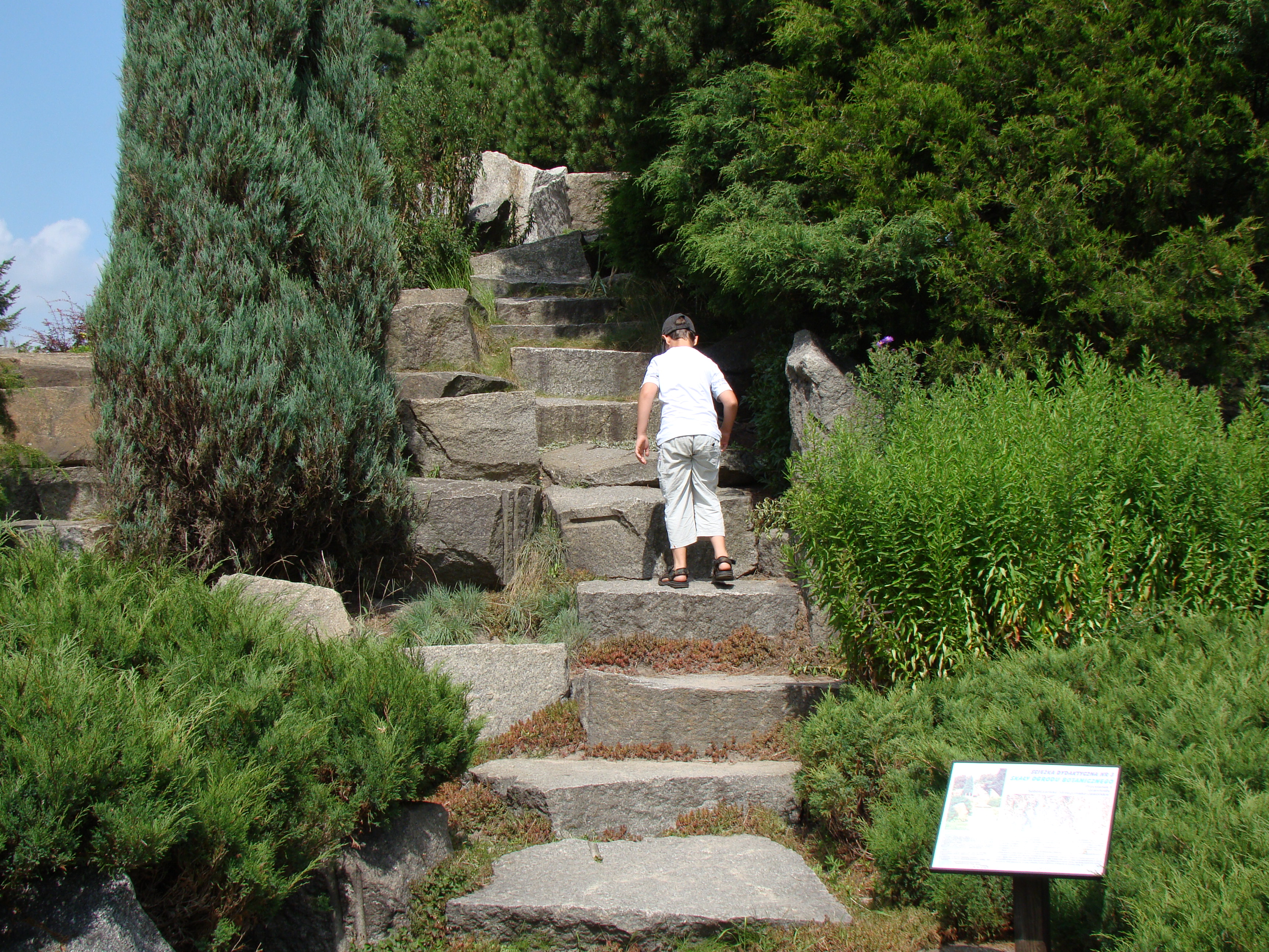 Botanical garden in Łódź